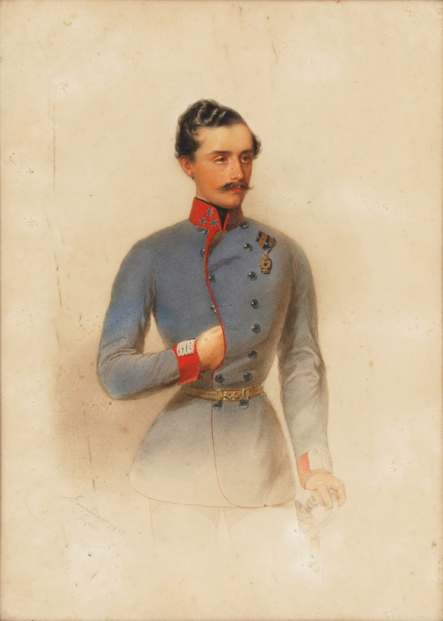 Portrait of Teodor Aleksić of Maine (1825-1891), Austrian general of Serbian origin. Srpski (latinica): Portret Teodora Aleksića od Majne (1825-1891), austrijskog generala srpskog porekla.